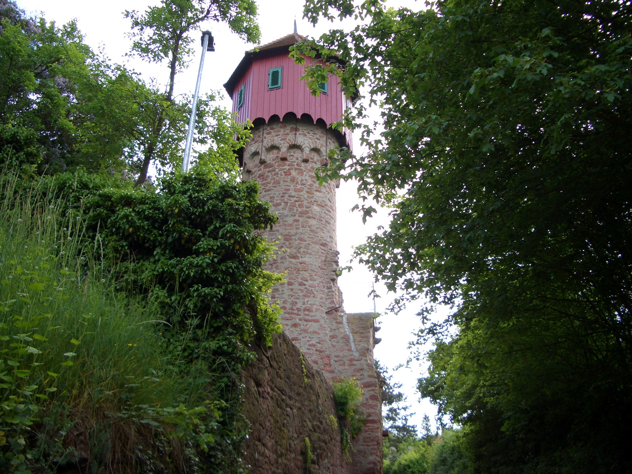 Gamburg